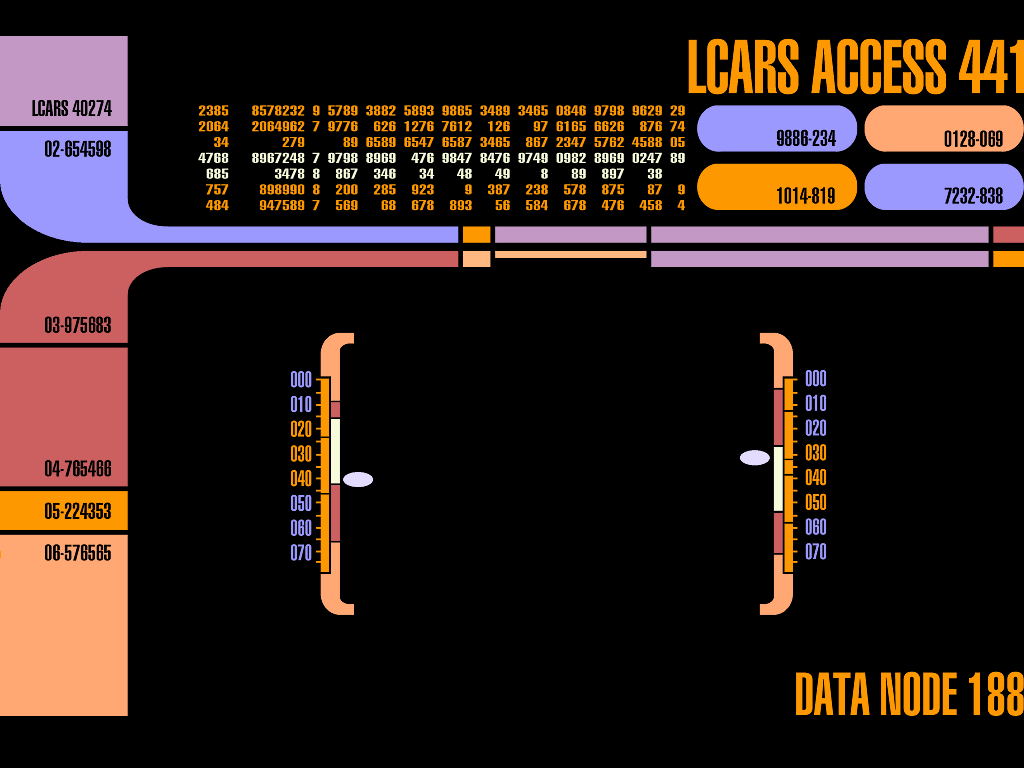 LCARS-style wallpaper for an LCARS theme for KDE 1. Drawn in Paint Shop Pro. The LCARS display style of Star Trek: Voyager is used. (The KDE theme used four slightly different wallpapers for each virtual desktop, so switching desktops changed the button colors. The black space above and below the display is sized for the KDE 1 toolbars.) The graphic elements were based on File:LCARS mask 4.png, but have been changed to reflect the Voyager instead of TNG style, e.g. button labels are numbers instead of letters, the four top buttons are wider, and the data readout to the left of the buttons has been changed.